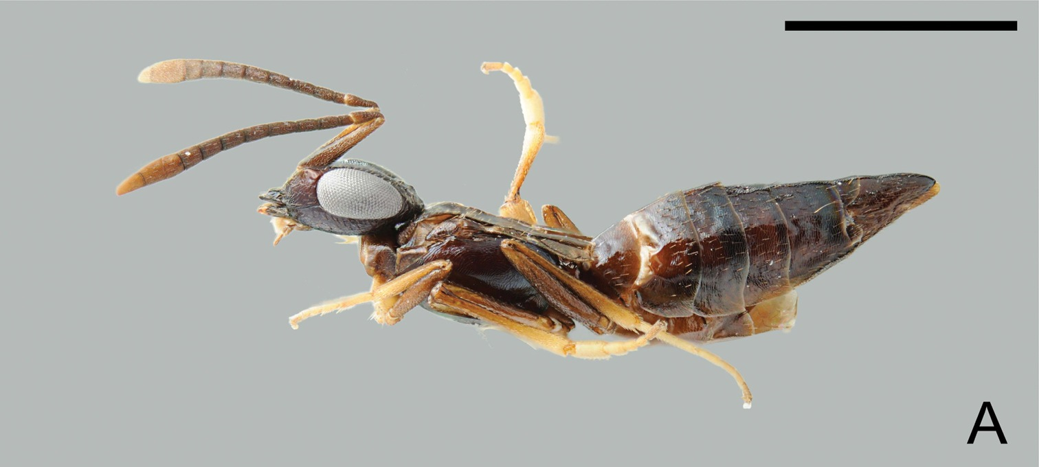 Calymmochilus dispar female in lateral view. Scale = 1 mm.